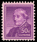 US stamp honoring Susan B. Anthony